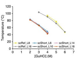 Alphabody thermal denaturation experiment comparing truncated Alphabody variants to reference scaffold